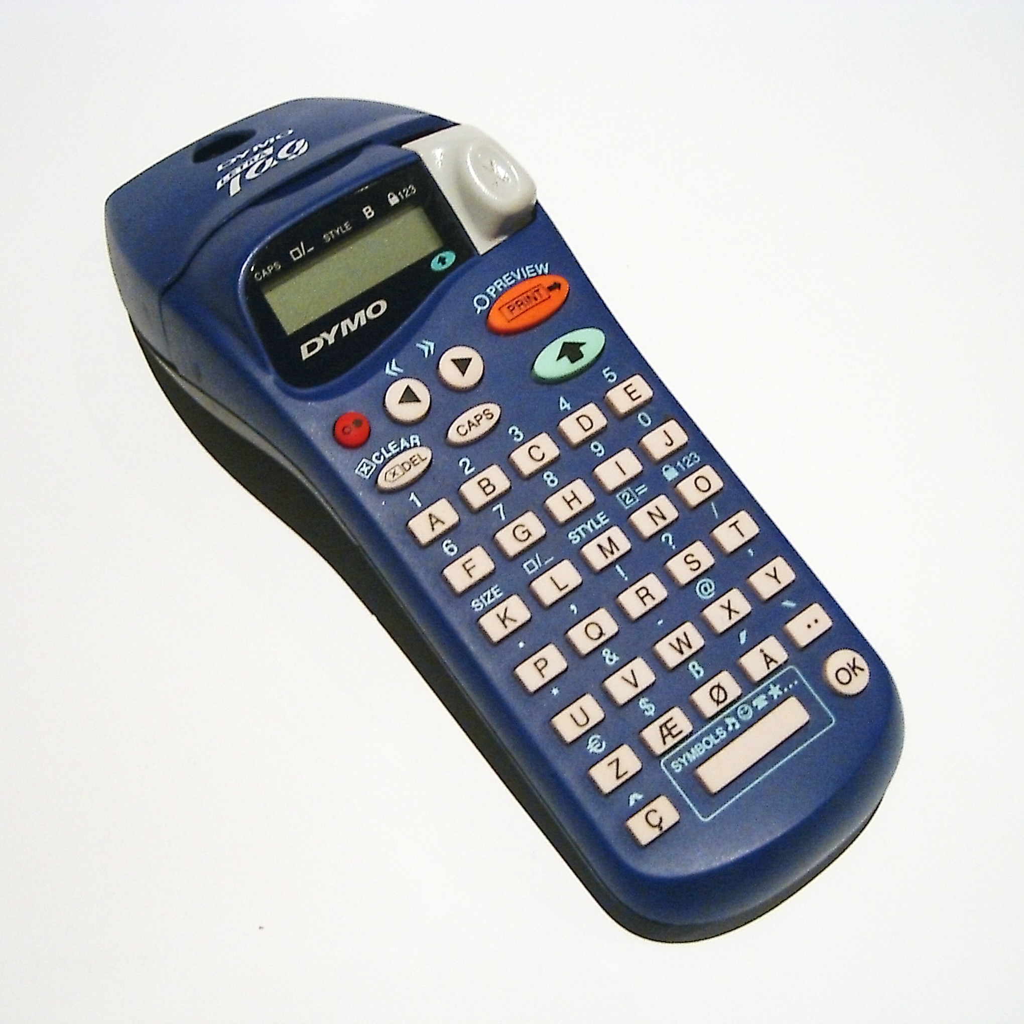 Dymo Beschriftungsgerät